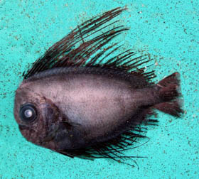 Photograph of Caristius macropus from southeastern Alaska.